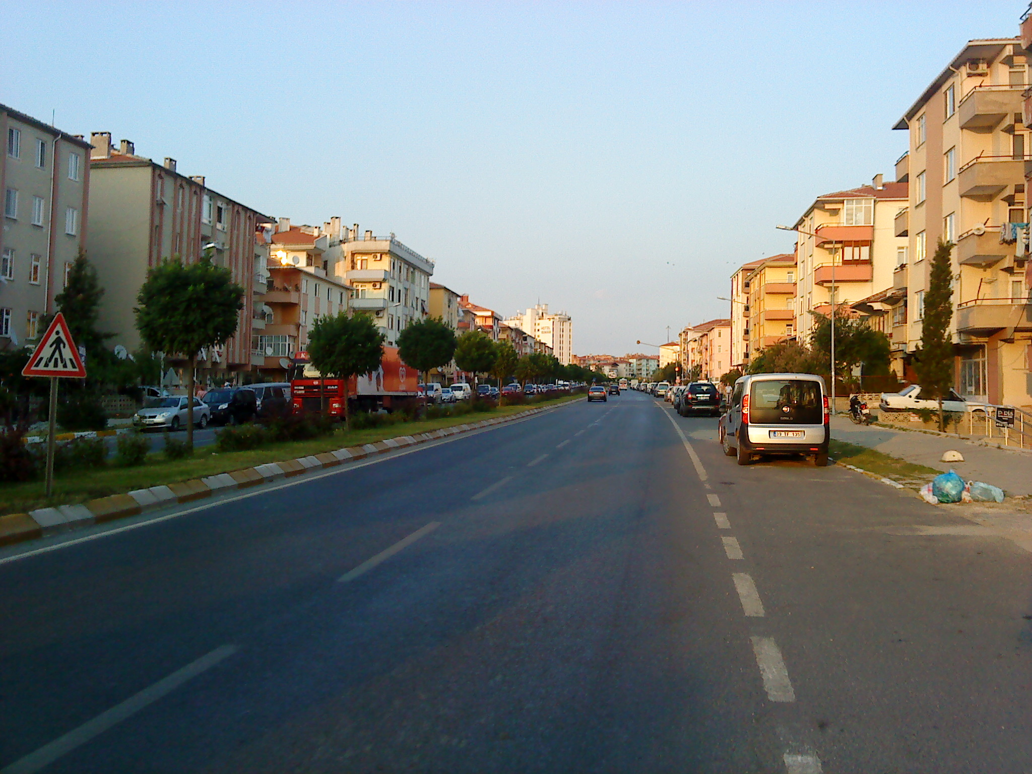 Main strett (D100) though Lüleburgaz.